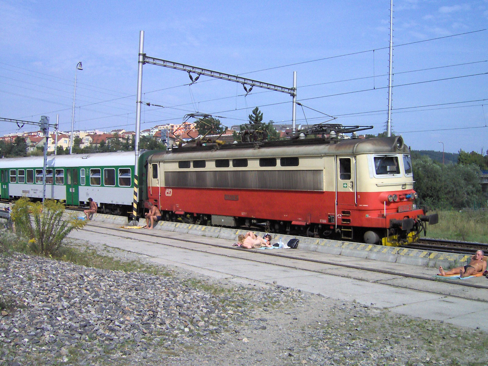 Electric locomotive class 242, Blansko, Czech Republic